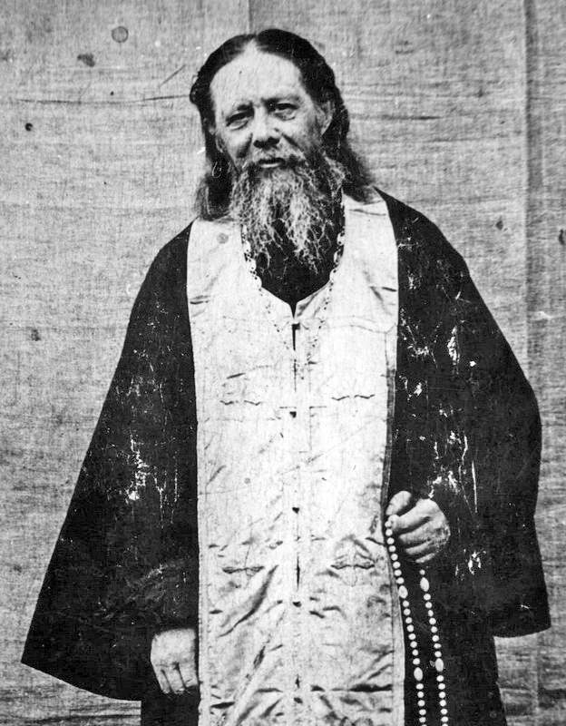 Преподобный Анатолий Младший Оптинский